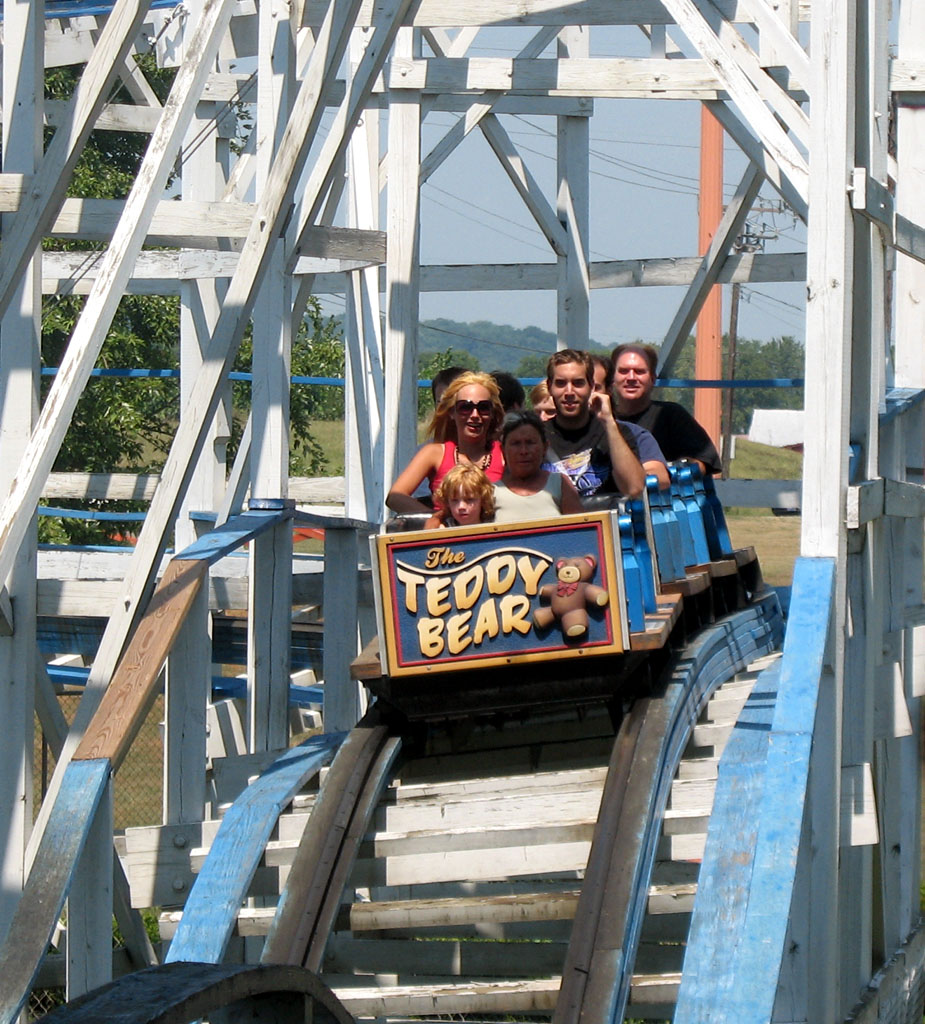 Teddy Bear roller coaster at Stricker's Grove. Taken August 2007